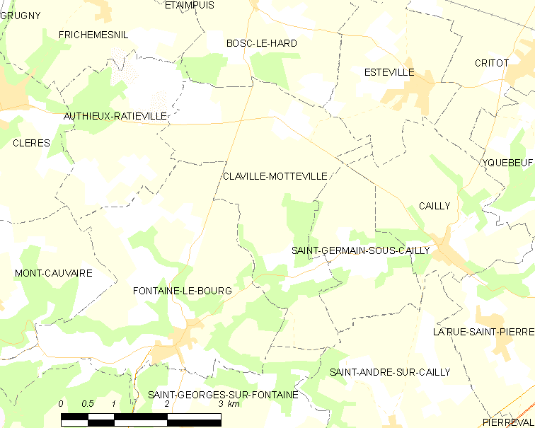 Map of French municipality Claville-Motteville